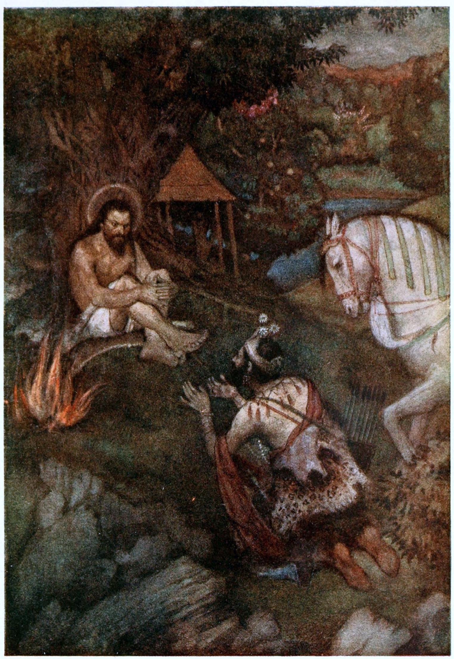 Author: Monro, W. D Publisher: New York : Thomas Y. Crowell Company Possible copyright status: NOT_IN_COPYRIGHT Language: English Call number: 600940 Digitizing sponsor: MSN Book contributor: New York Public Library Collection: newyorkpubliclibrary; iacl; americana Notes: orange pages from unnumbered illustrations.